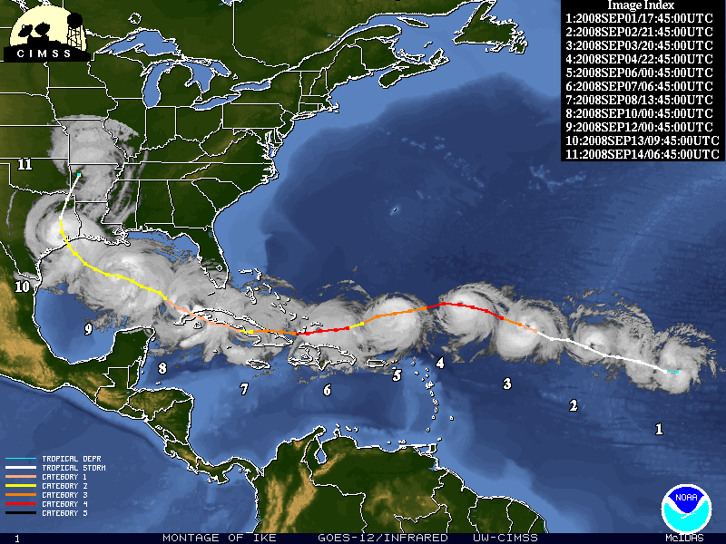 Composite track and satellite images of Hurricane Ike of 2008